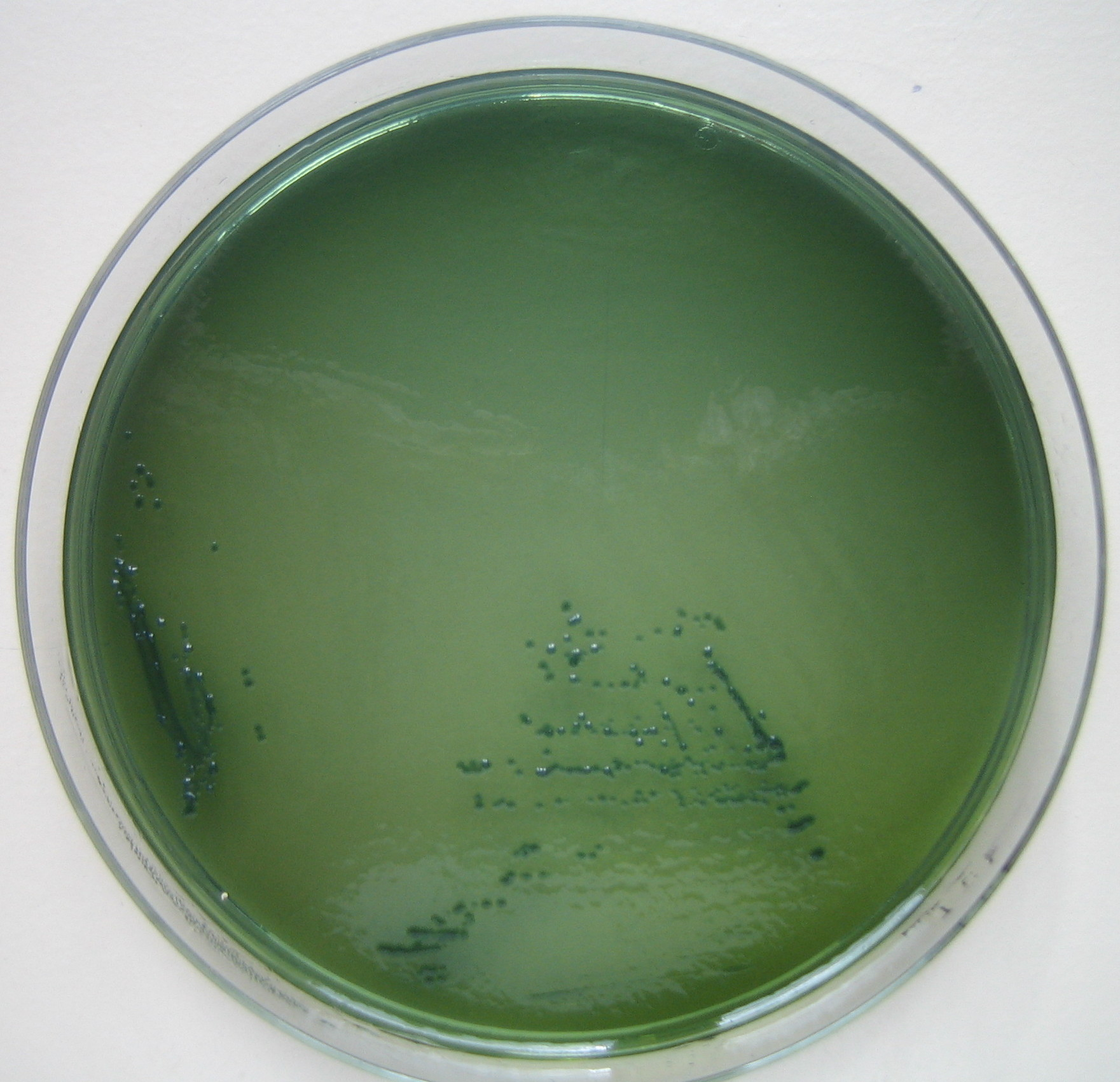 TCBS agar with Vibrio parahaemolyticus colonies